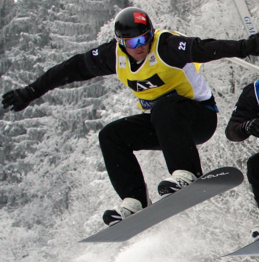 Bad Gastein SBX, Heat 6 (Men): Alex Pullin (AUS), Koicho Ito (JPN), Francois Boivin (CAN), Damon Hayler (AUS).